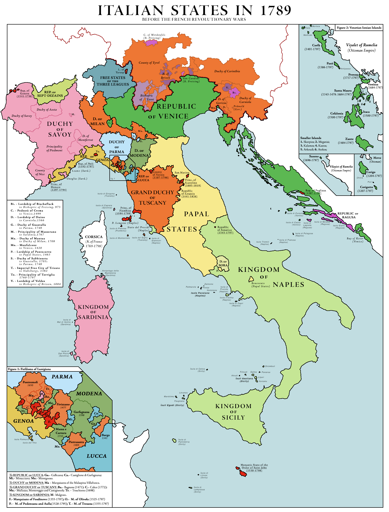 Map of the states in the Italian Peninsula in the year 1789, including microstates.